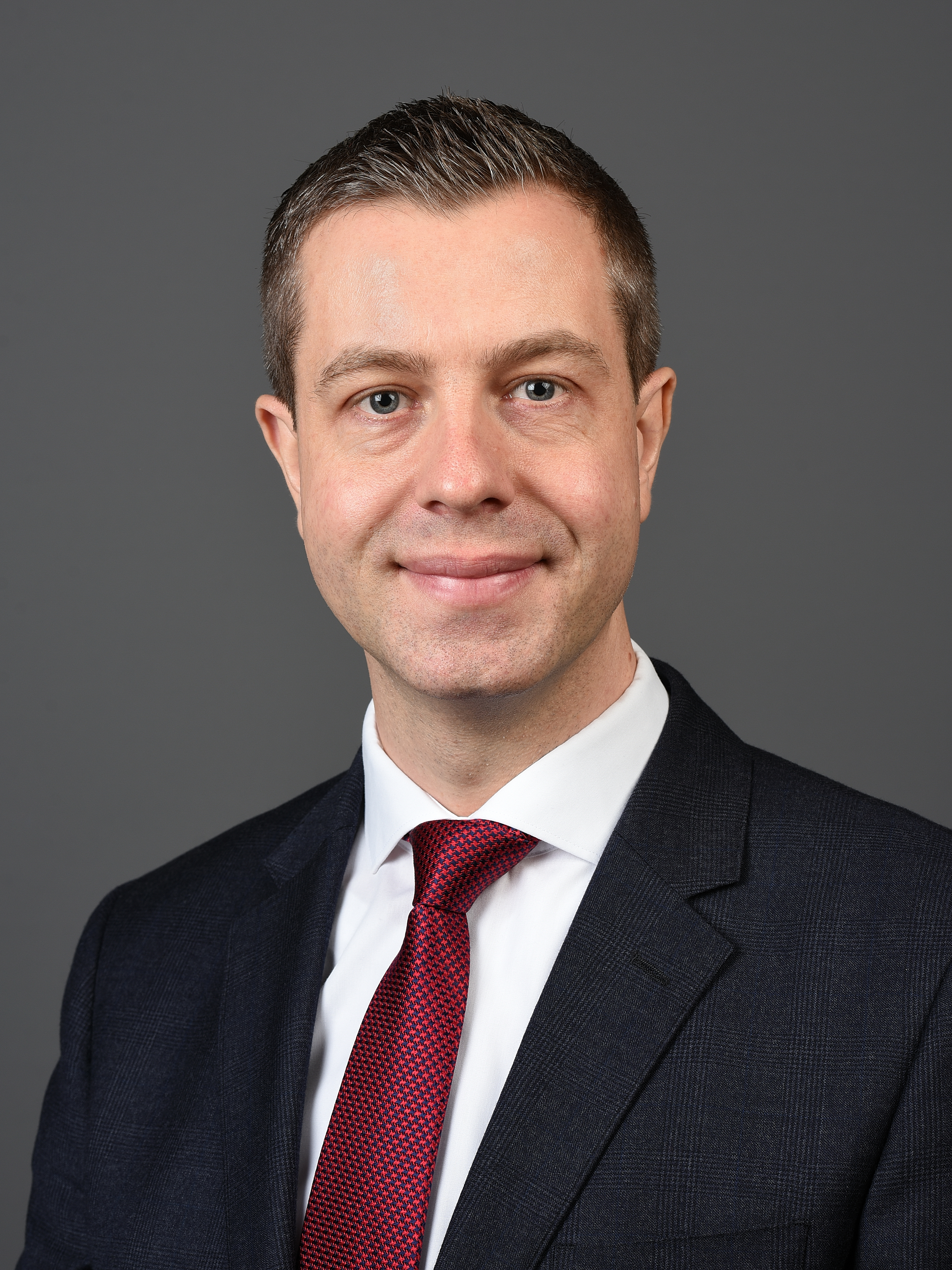 Stefan Evers, CDU, Member of the Abgeordnetenhaus of Berlin, 2017.